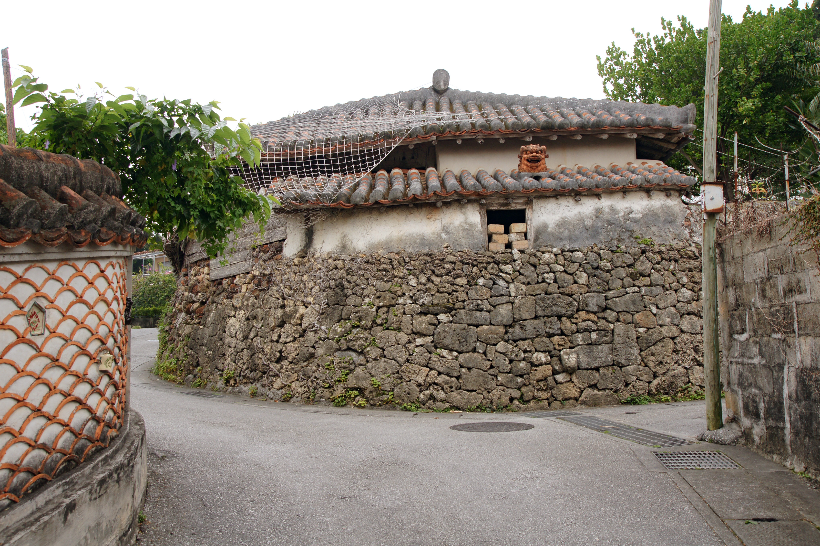 Aragaki House, Naha, Okinawa prefecture, Japan